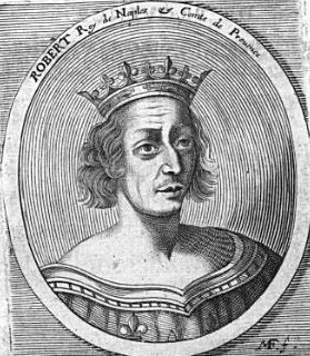 Robert of Anjou